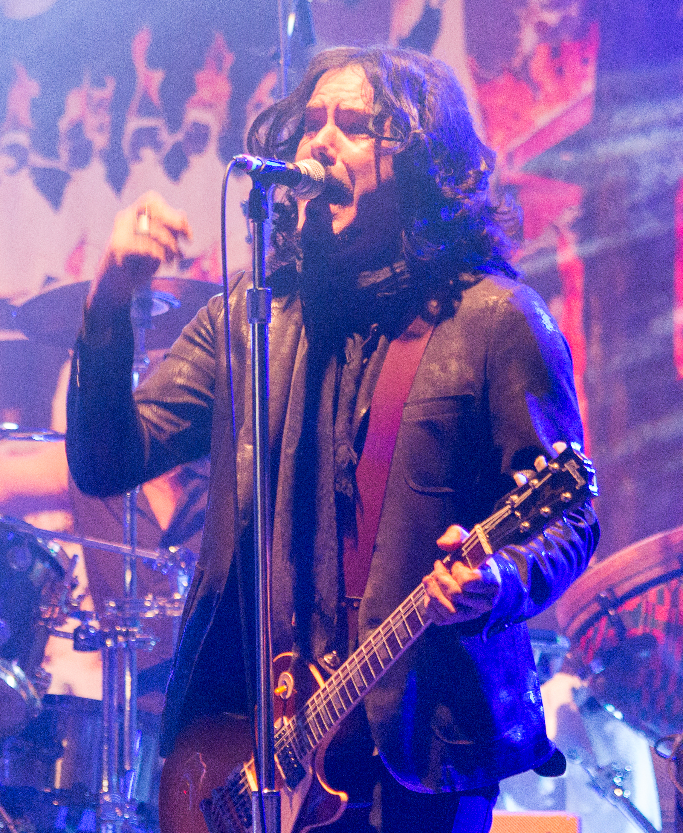 Jeff Martin of theTea Party performing at the Sound of Music Festival in Burlington, ON